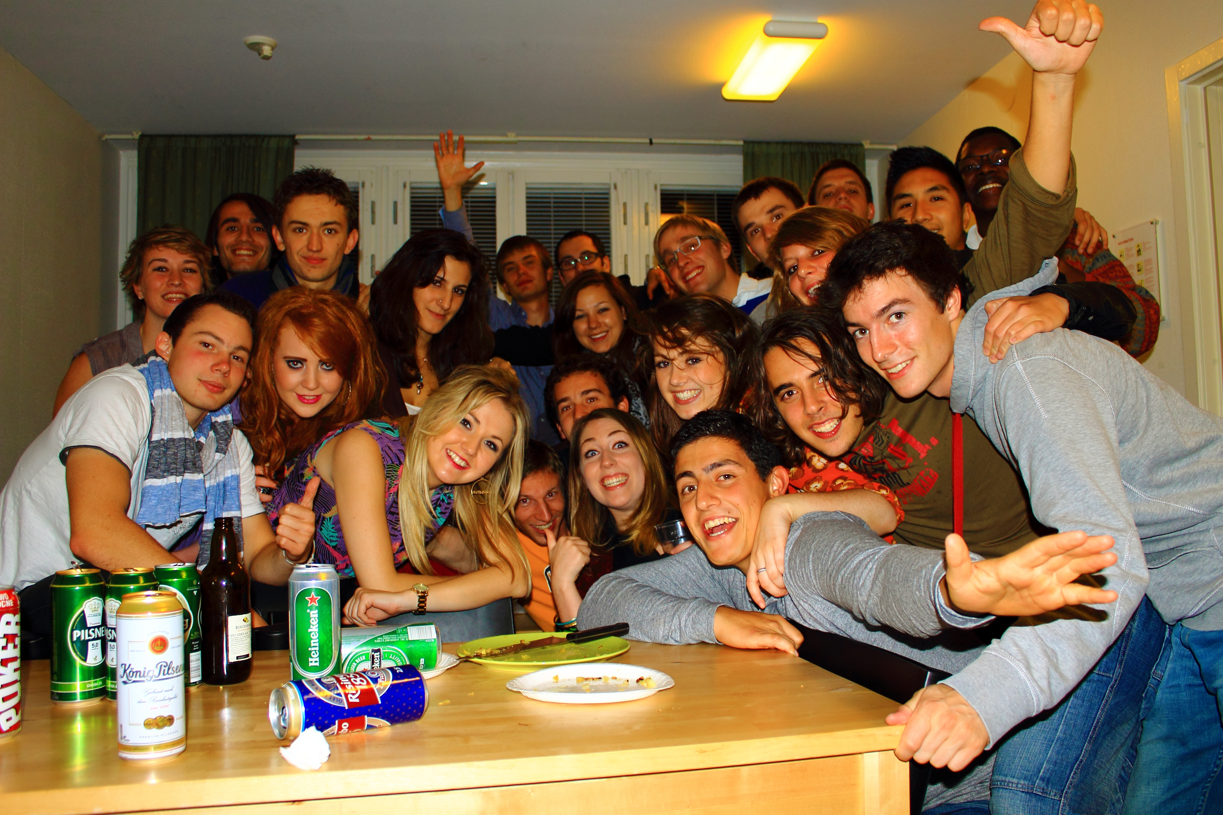 Typical erasmus party, Linköping, Sweden